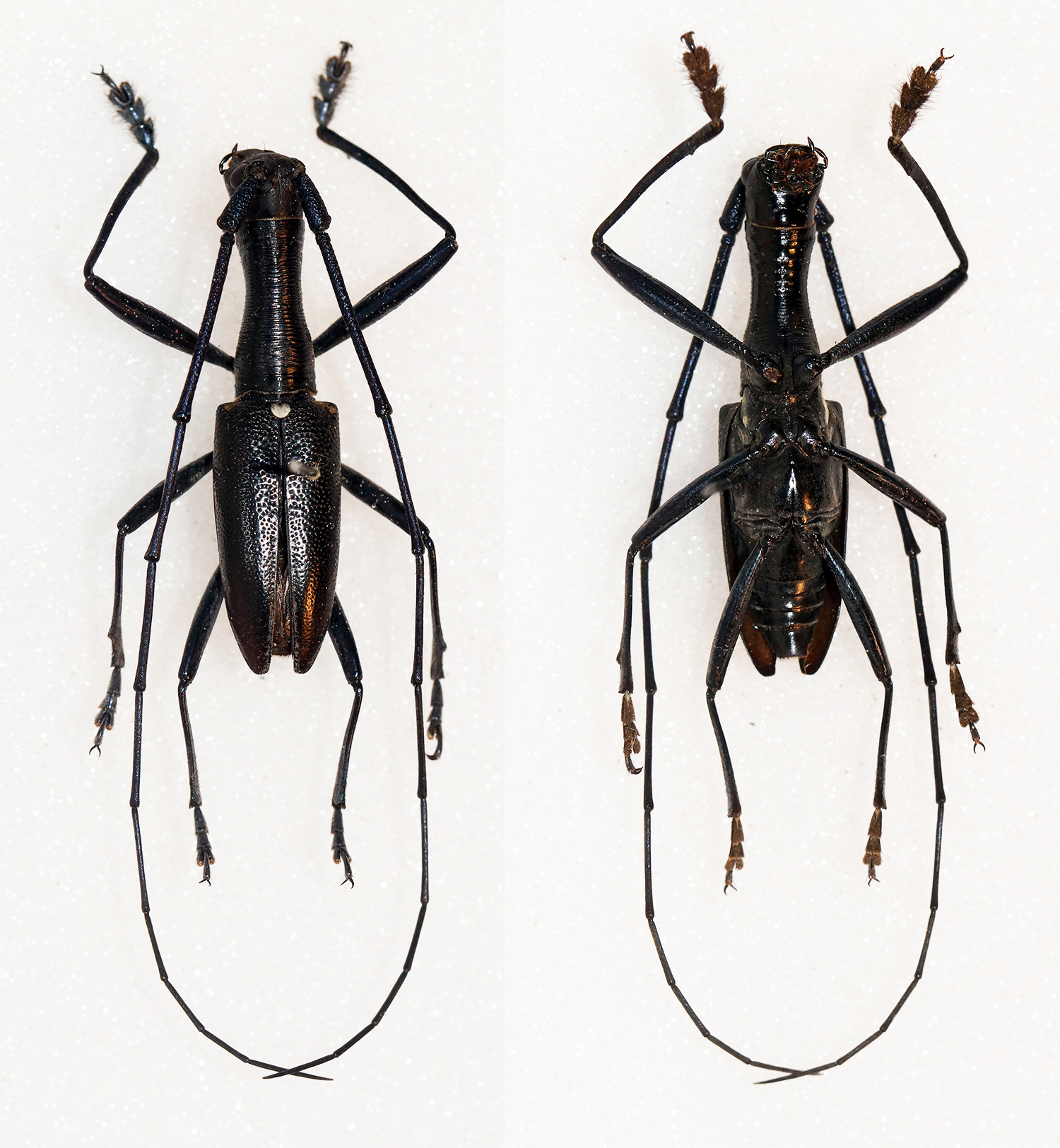 Cerambycidae